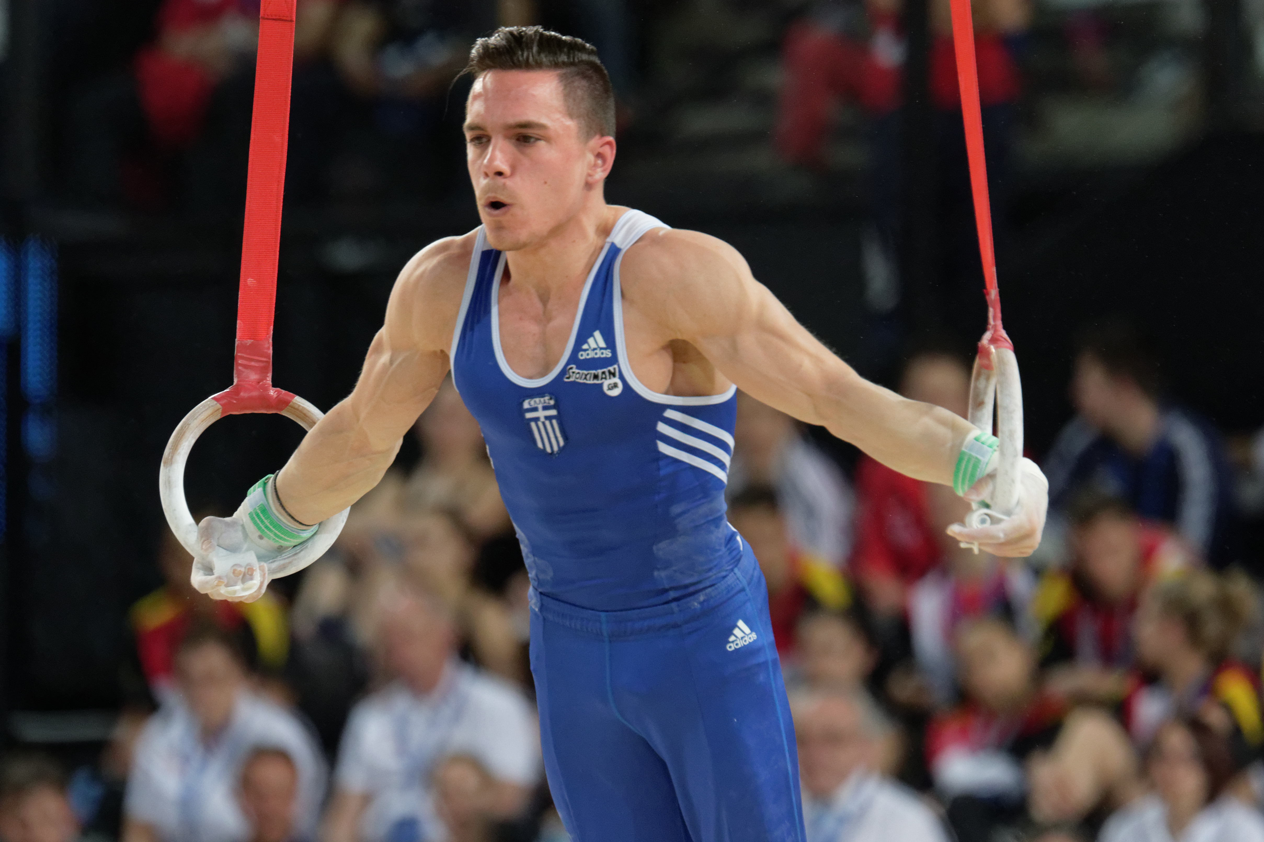 2015 European Artistic Gymnastics Championships. Rings.